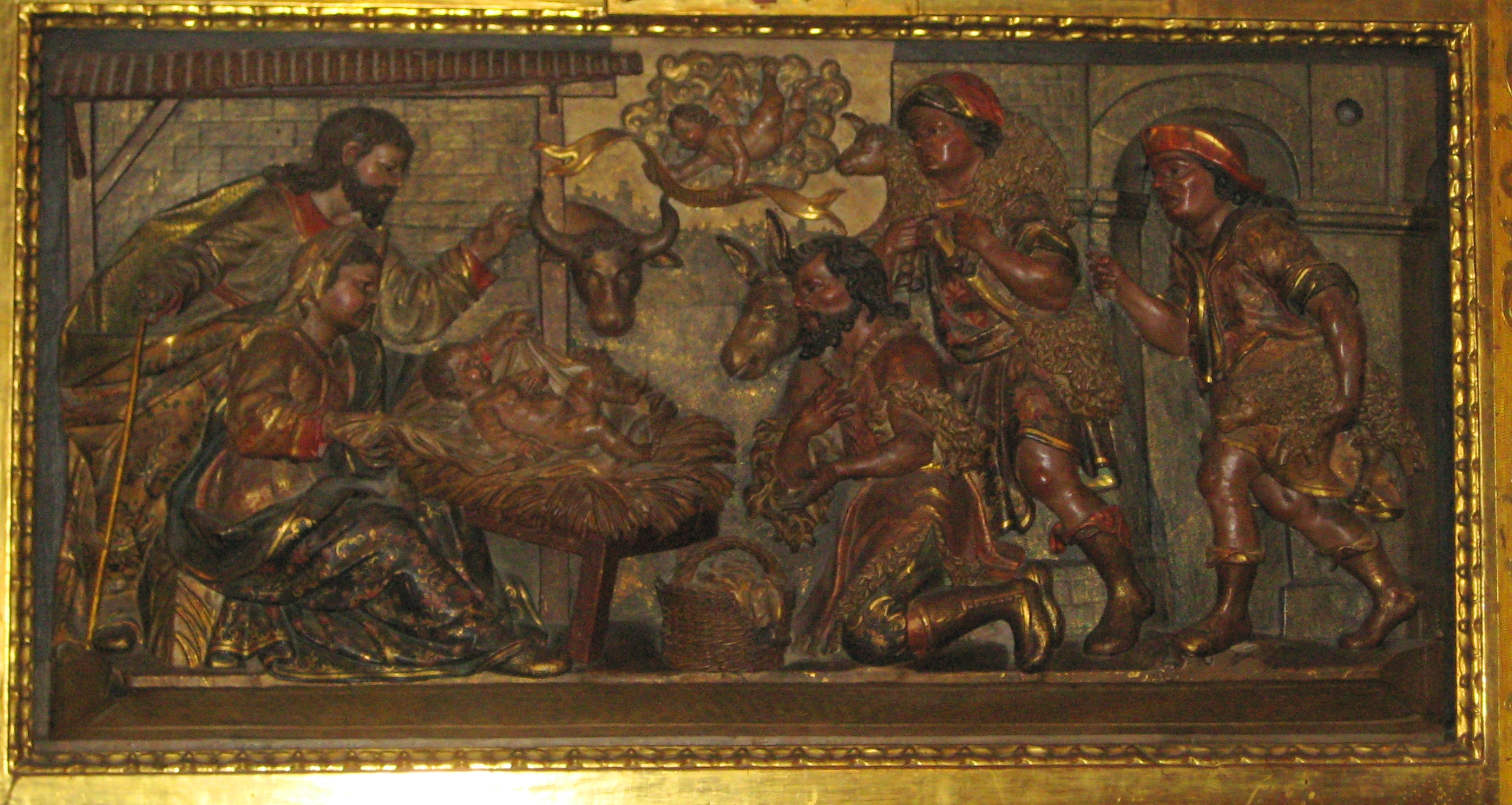 Adoration of the Shepherds to the new born Jesus Christ. Relief on an altarpiece in Saint Mary's Assumption Church, Bastida - Labastida, La Rioja Alavesa, Araba - Álava, Basque Country, Spain.